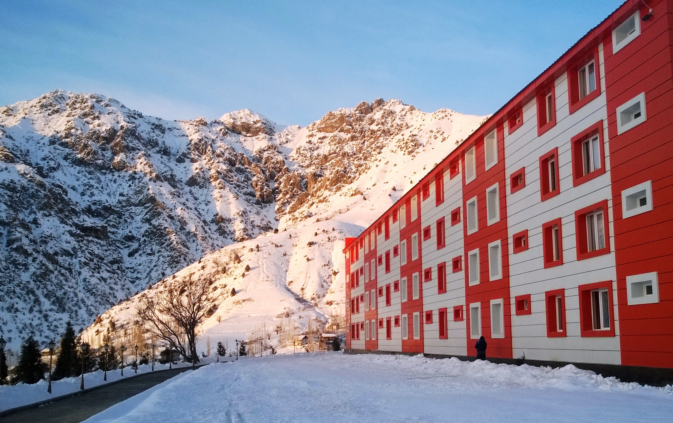 View of the hotel of Safed Dara